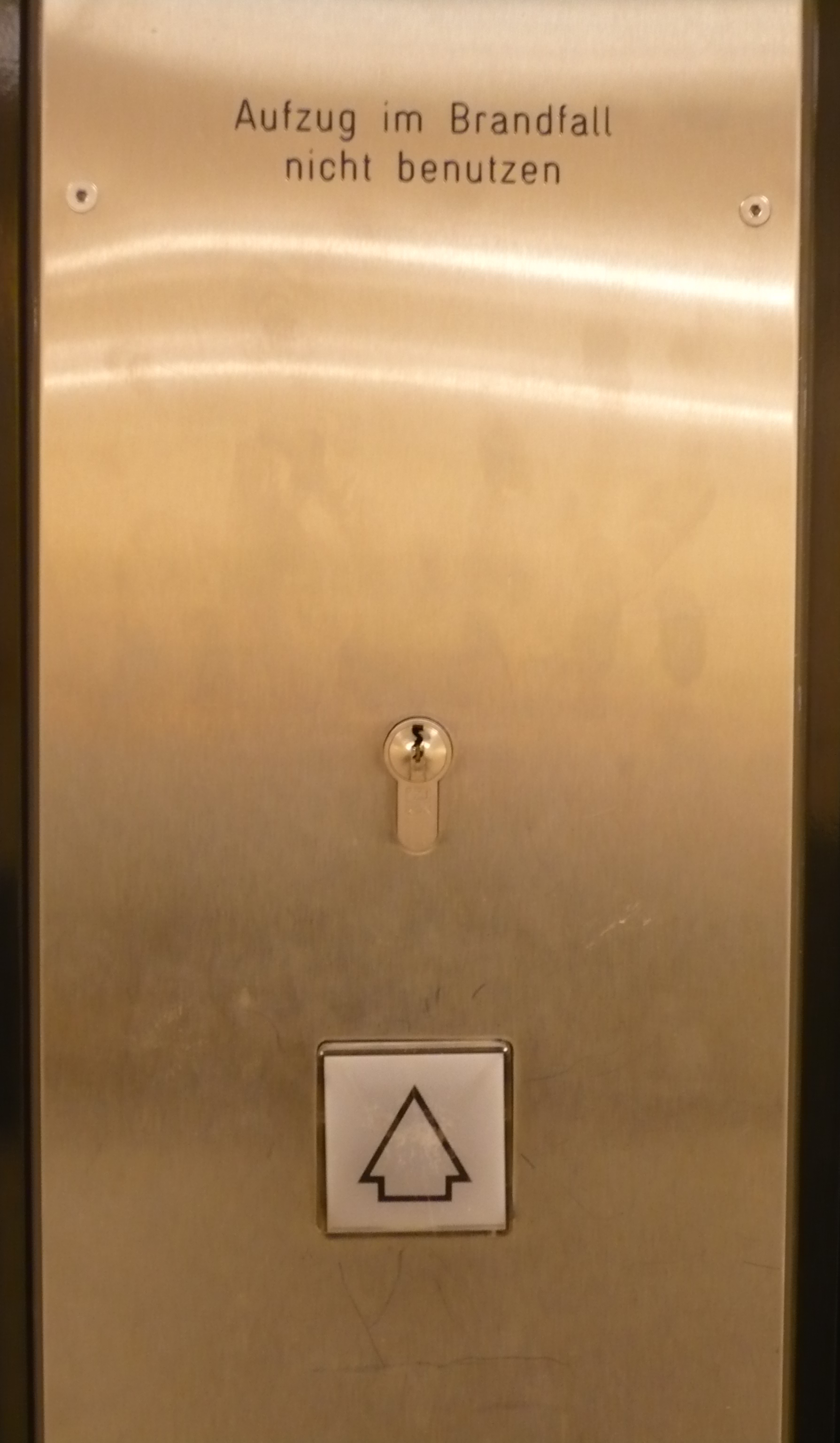 An external lift control panel with key switch